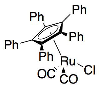 Fu's ruthenium catalyst for racemization for dynamic kinetic resolution of alcohols